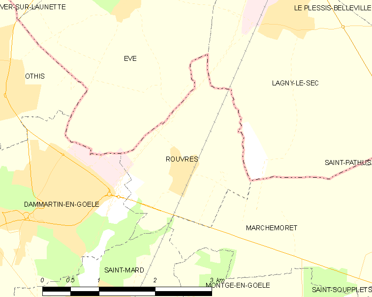 Map of French municipality Rouvres